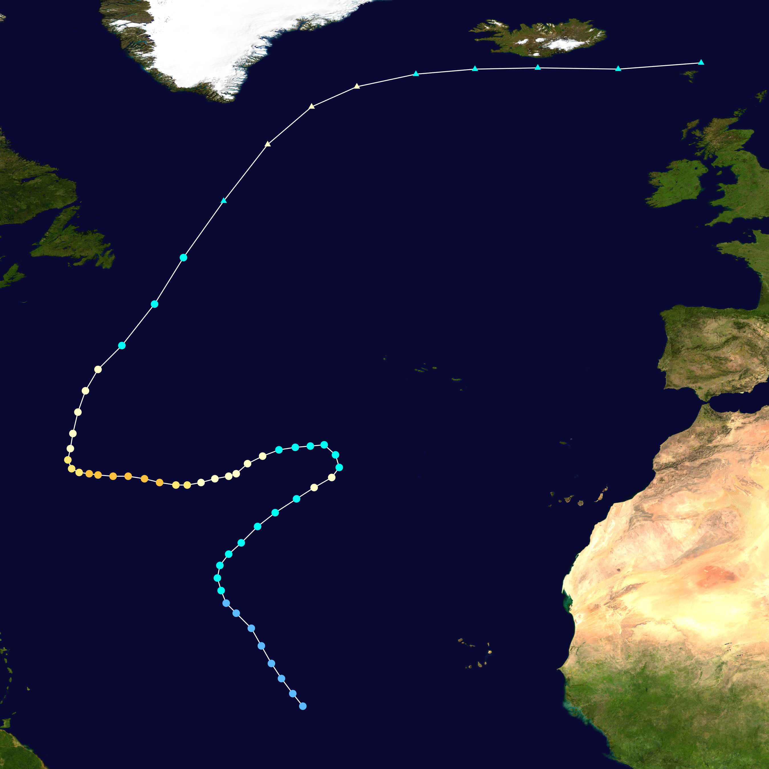 Track map of Hurricane Kate of the 2003 Atlantic hurricane season. The points show the location of the storm at 6-hour intervals. The colour represents the storm's maximum sustained wind speeds as classified in the Saffir–Simpson scale (see below), and the shape of the data points represent the nature of the storm, according to the legend below. Saffir–Simpson scale Tropical depression≤38 mph≤62 km/h Category 3111–129 mph178–208 km/h Tropical storm39–73 mph63–118 km/h Category 4130–156 mph209–251 km/h Category 174–95 mph119–153 km/h Category 5≥157 mph≥252 km/h Category 296–110 mph154–177 km/h Unknown Storm type Tropical cyclone Subtropical cyclone Extratropical cyclone / Remnant low / Tropical disturbance / Monsoon depression